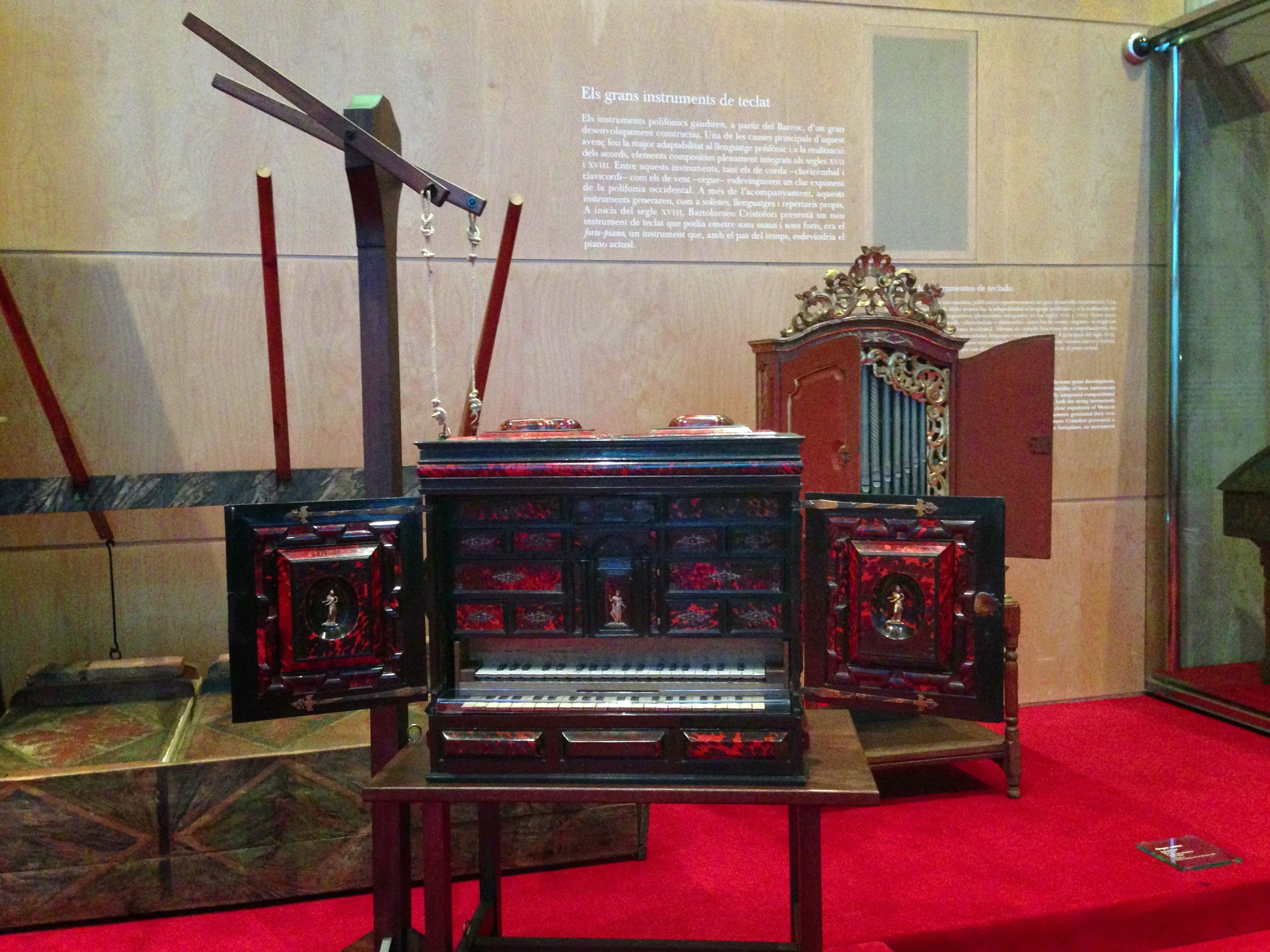 Claviorgan, Lorenz Hauslaib, MDMB 821, Museu de la Música de Barcelona MDMB 581: Orgue, D. Manuel Pérez Molero (Autor), 1719 MDMB 821: Claviorgue, Lorenz Hauslaib (Autor), Nuremberg, ca.1590 MDMB 55(?): Orgue, Josep Boscà, ?, ?-?